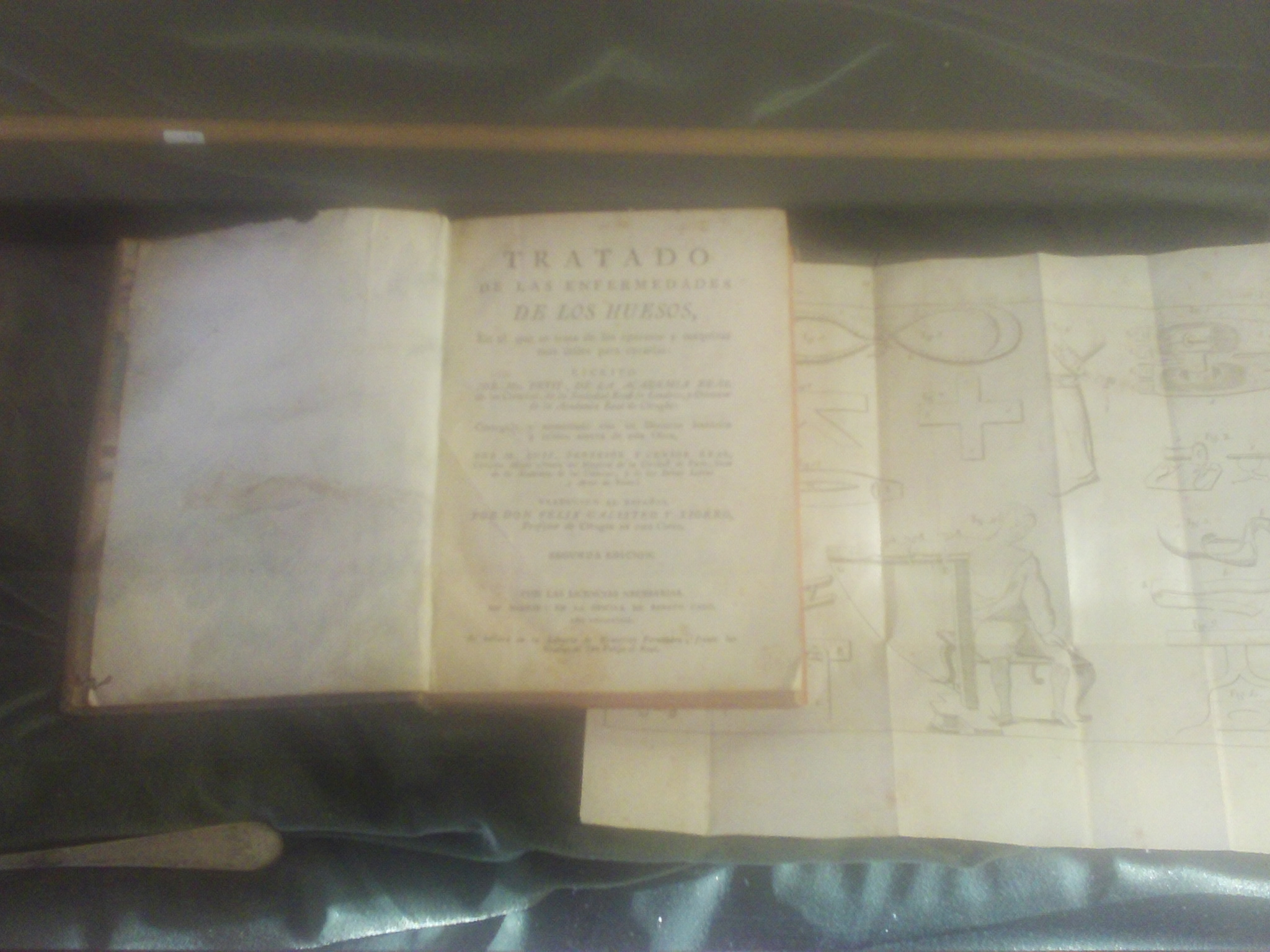 Doctor Don Tomás Mena books.